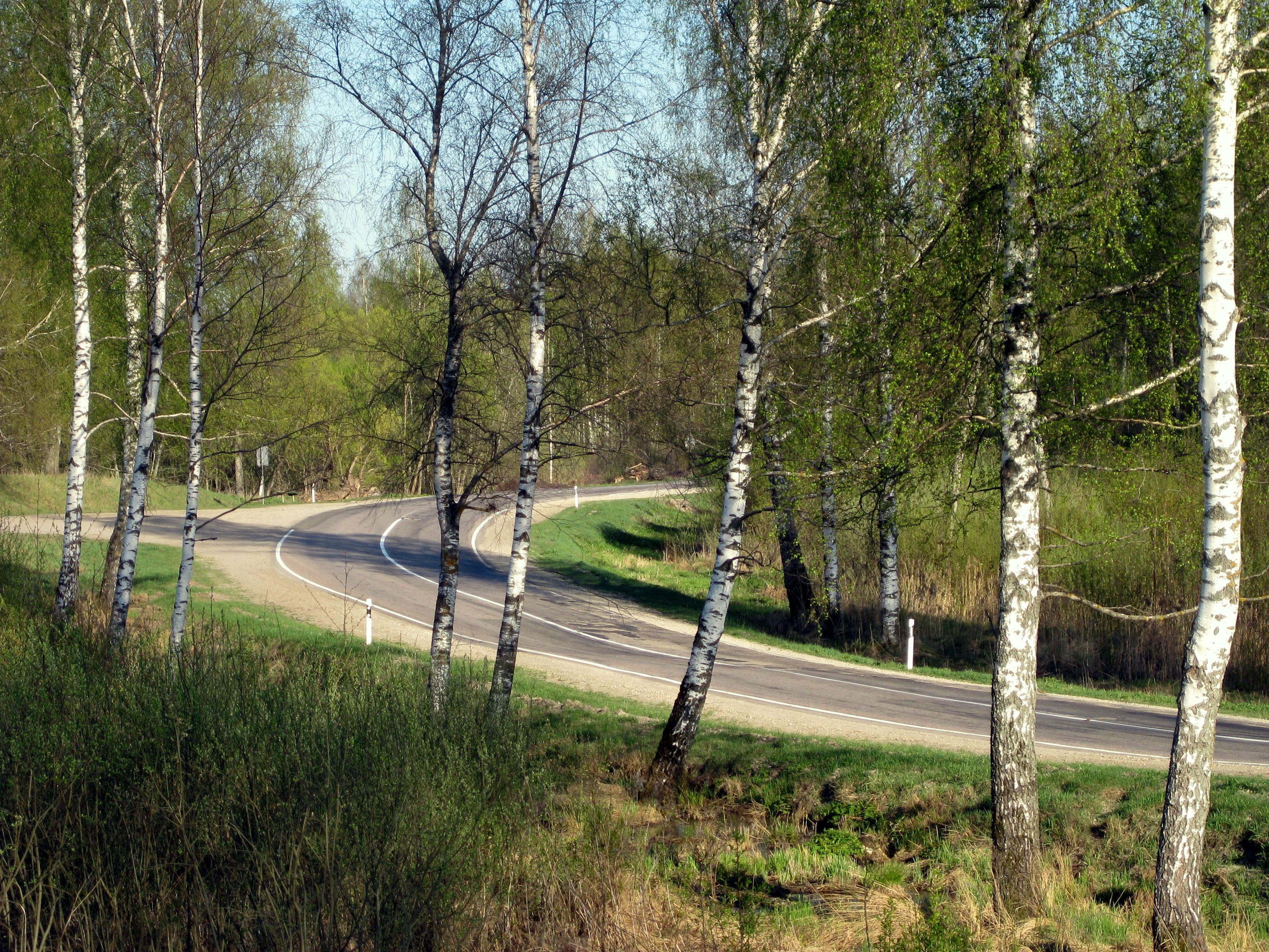 European road E22 near Rezekne, Latvia